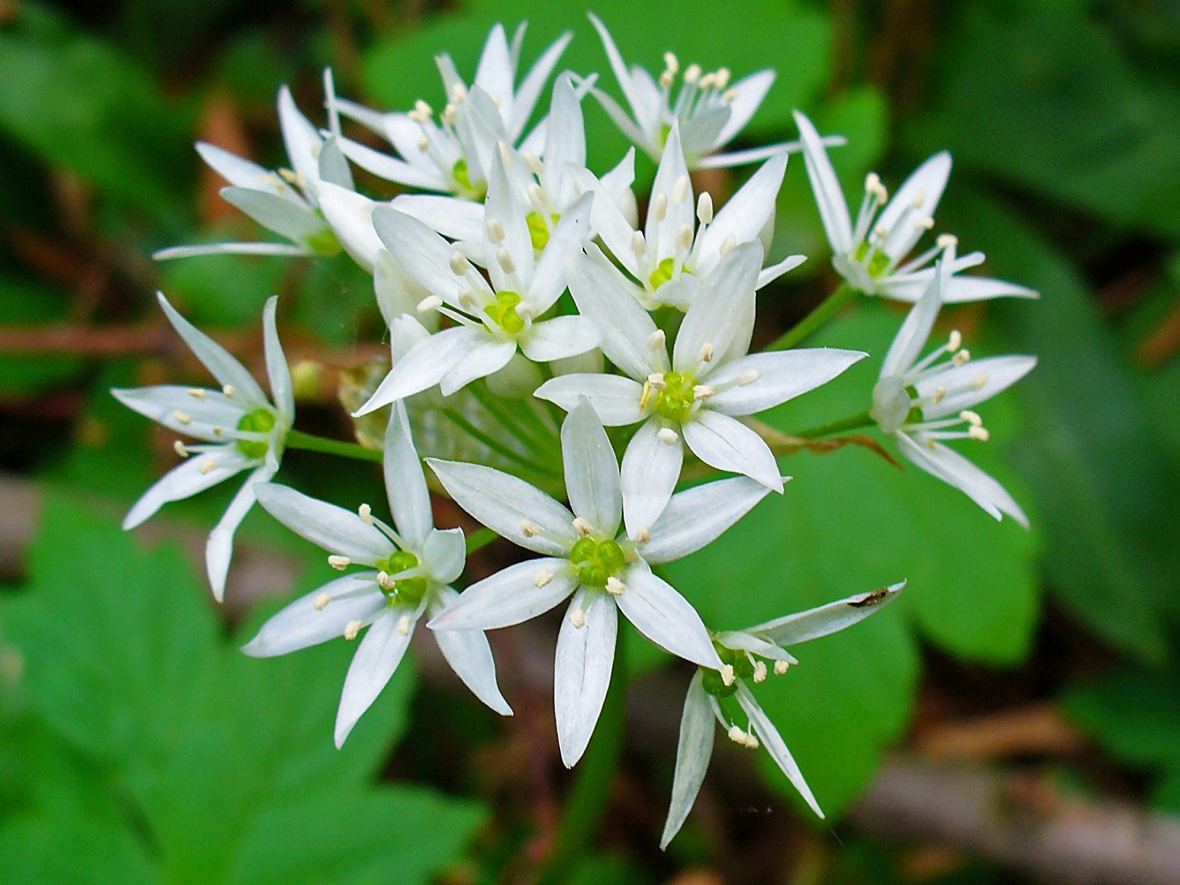 Allium ursinum, Alliaceae, Ramsons, Buckrams, Wild Garlic, Broad-leaved Garlic, Wood Garlic, Bear's Garlic, flowers; Karlsruhe, Germany. The blooming plants are used in homeopathy as remedy: Allium ursinum (All-u.)